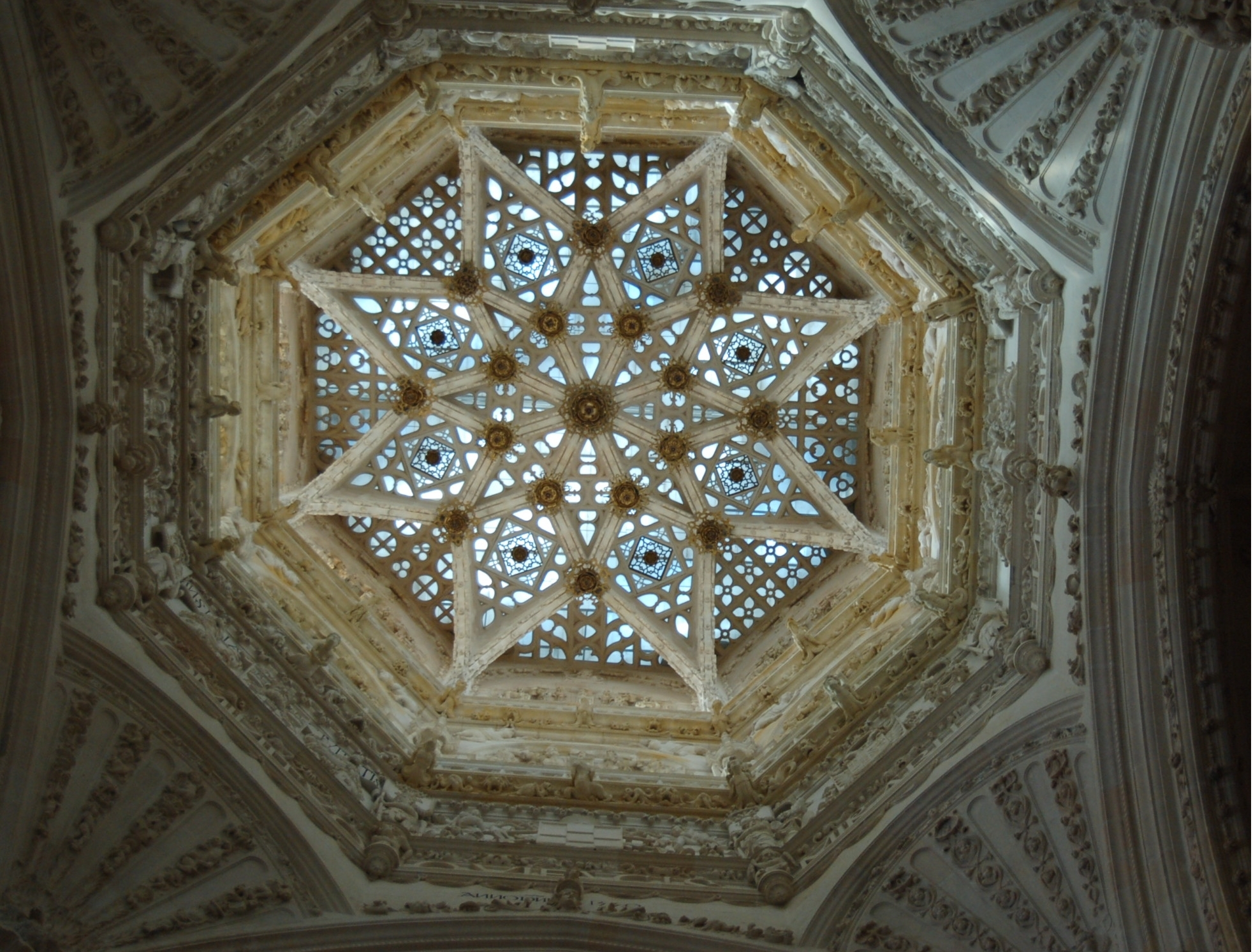 Burgos Cathedral, cupola of intersection, today above the grave of El Cid